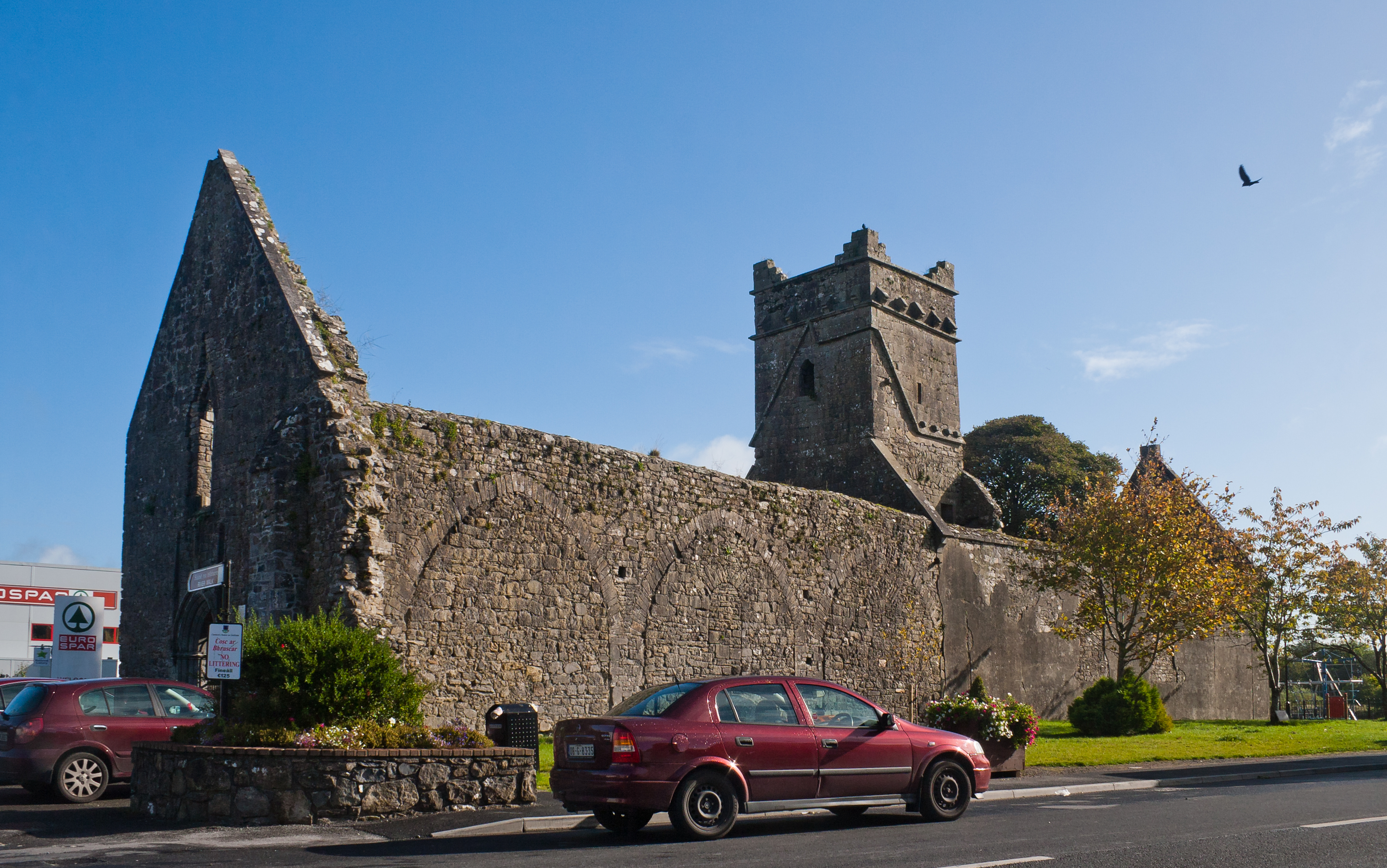 South view of Dunmore Priory at Barrack St.